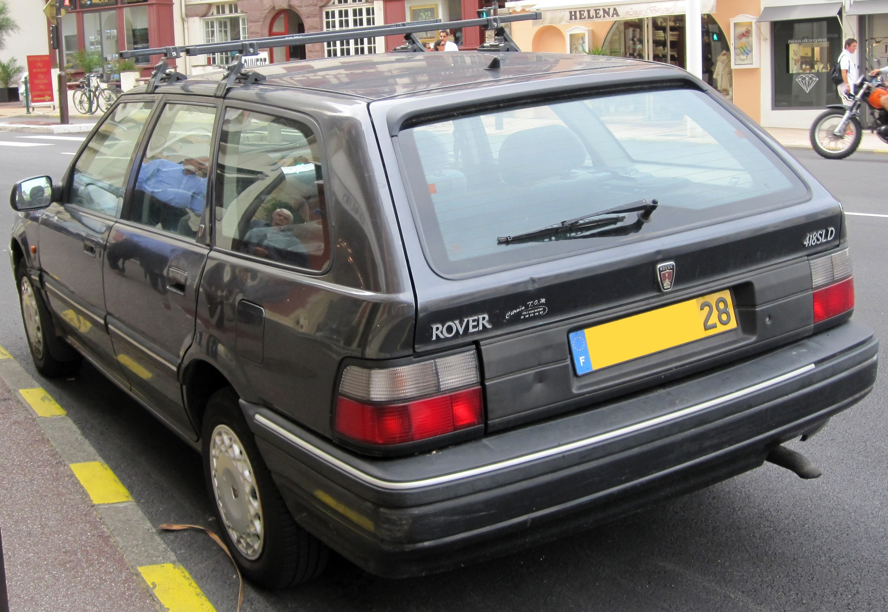 Another car that I hadn't seen in ages, if that... It's unbelieveable how rare compared to the other bodies the Station Wagons are. Seen in Biarritz (Aquitaine) (France).